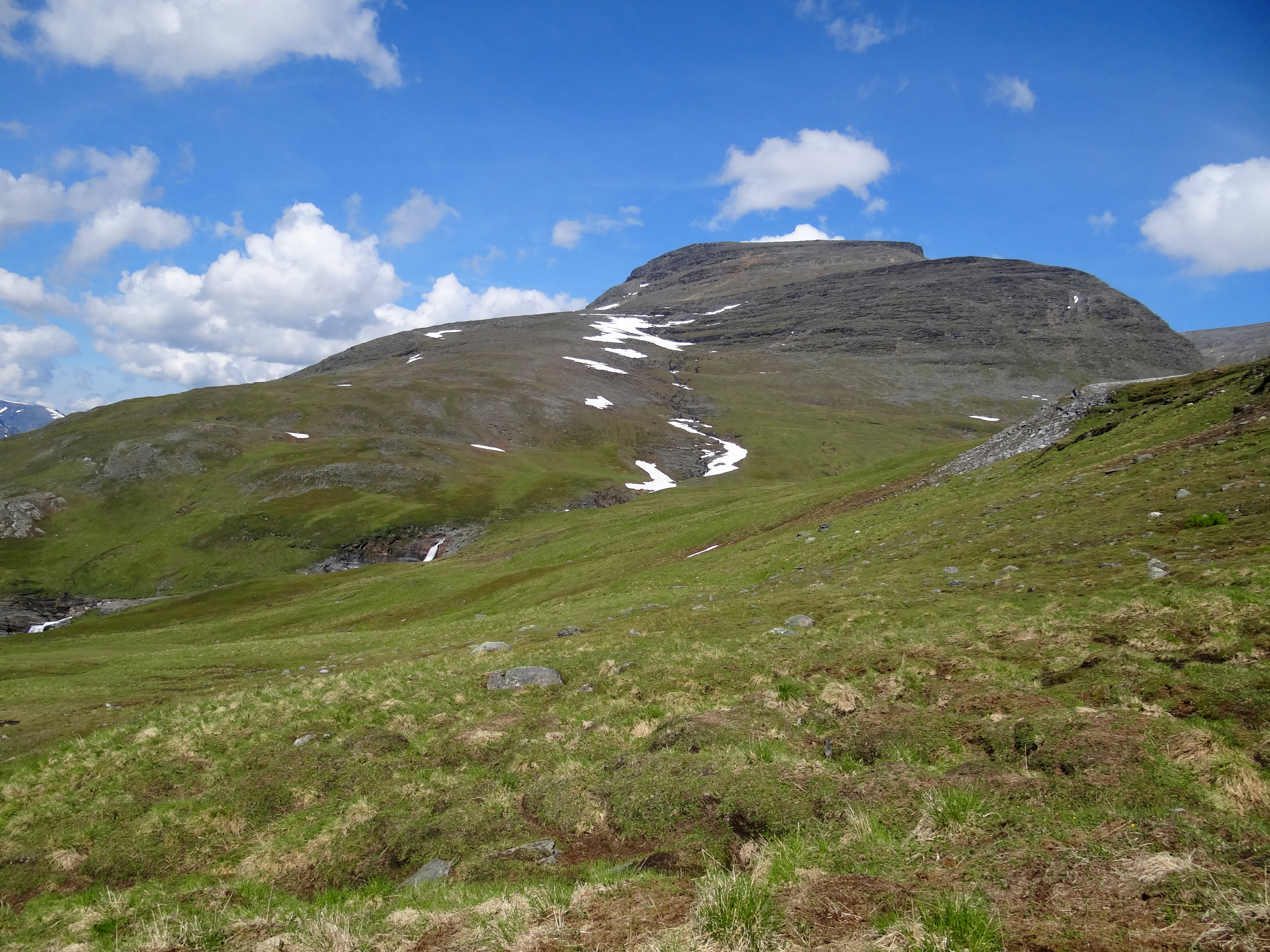 Kjeleelvtinden is a mountain in Rohkunborri National Park in Troms, Norway. The peak is 1569 metres above sea level.